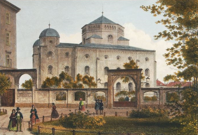 Dresden’s old Synagogue by Gottfried Semper (“Semper Synagogue”) build 1839 – 1840, destroyed 1938 during Kristallnacht